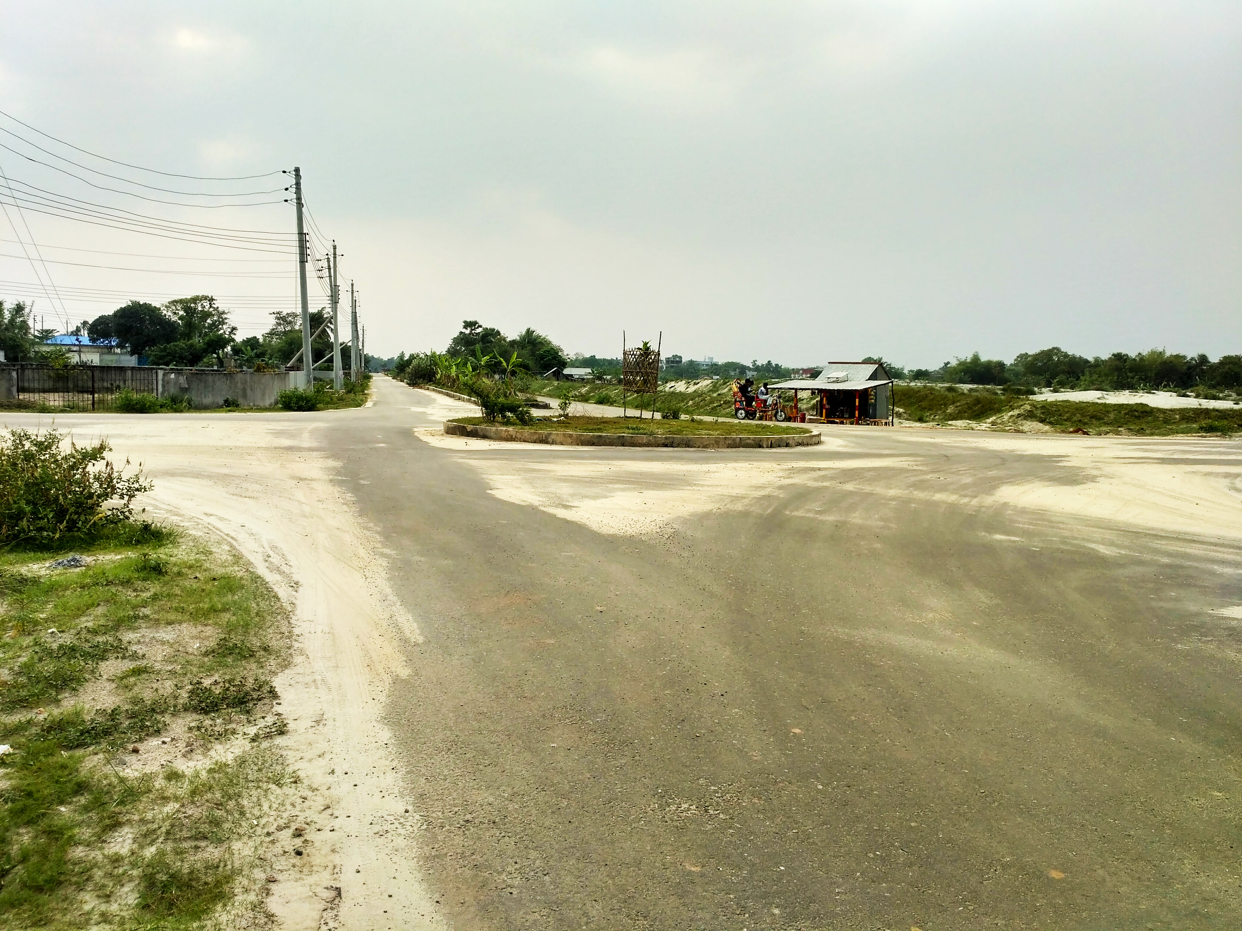 A cross-roads at Purbachal New Town, Sector - 13, Bangladesh. (30.03.2019)